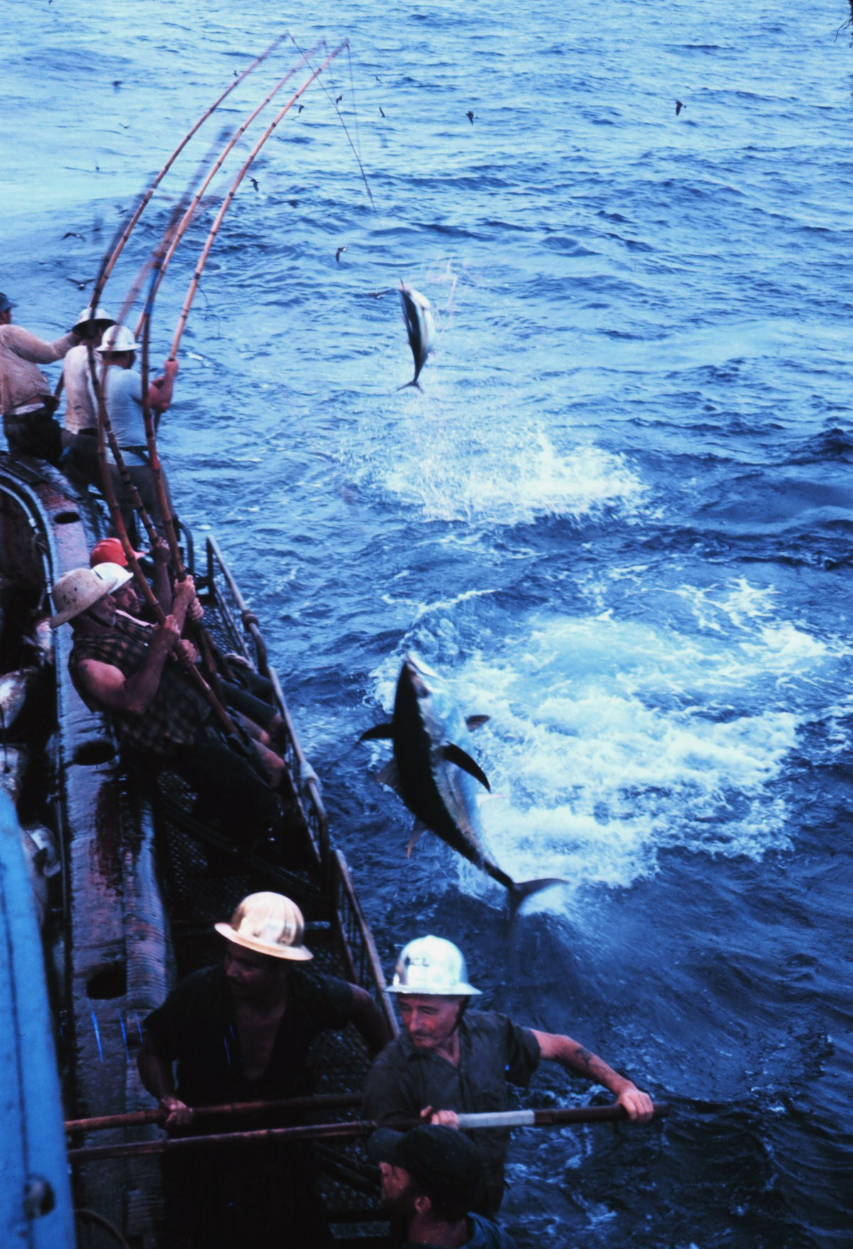 Three-pole one-line rig catching Bigeye tuna in the Galapagos Islands area